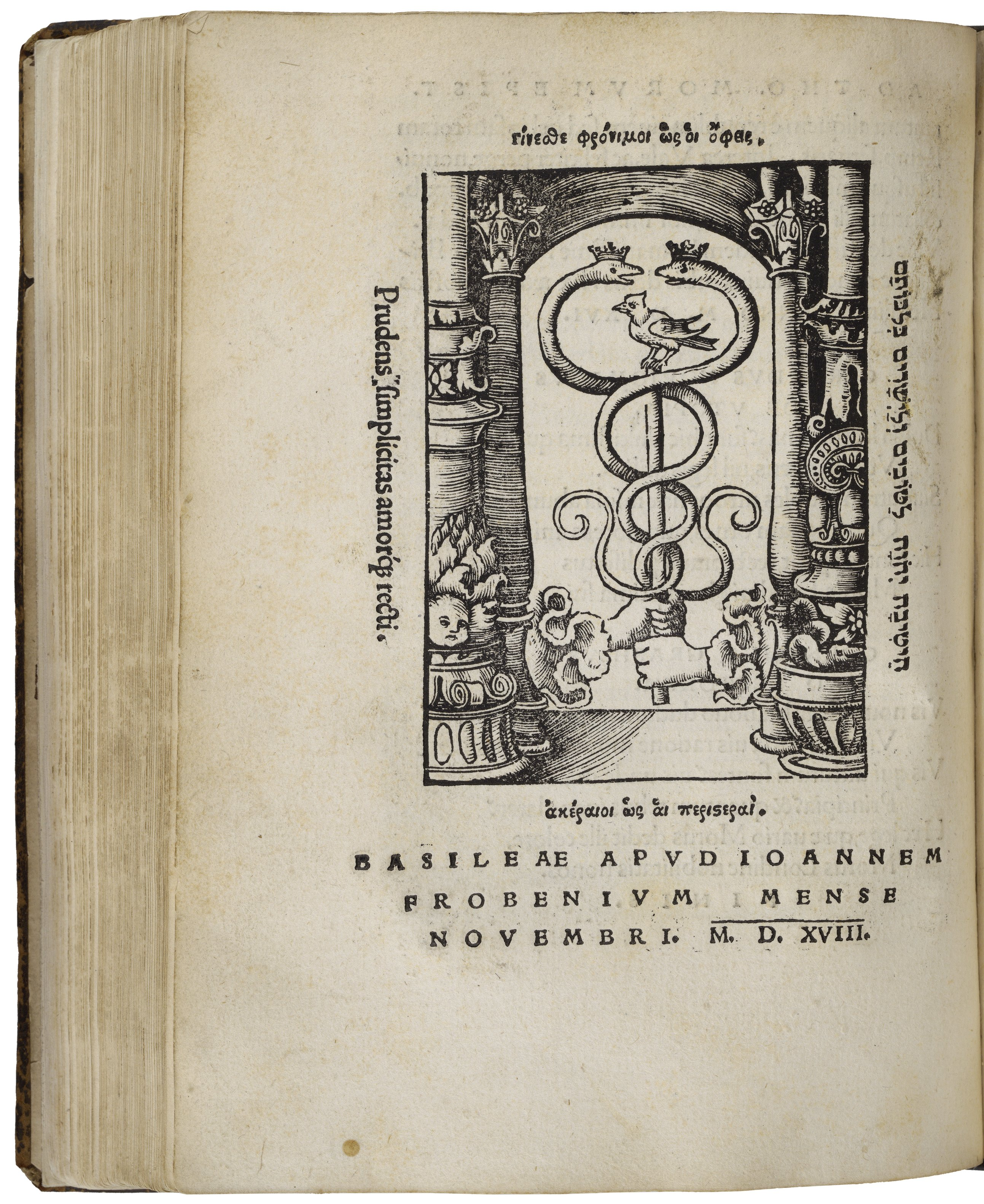 This is the printer mark of Johan Froben, as it appears in Thomas More's Utopia printed in november 1518 (and probably december 1518)